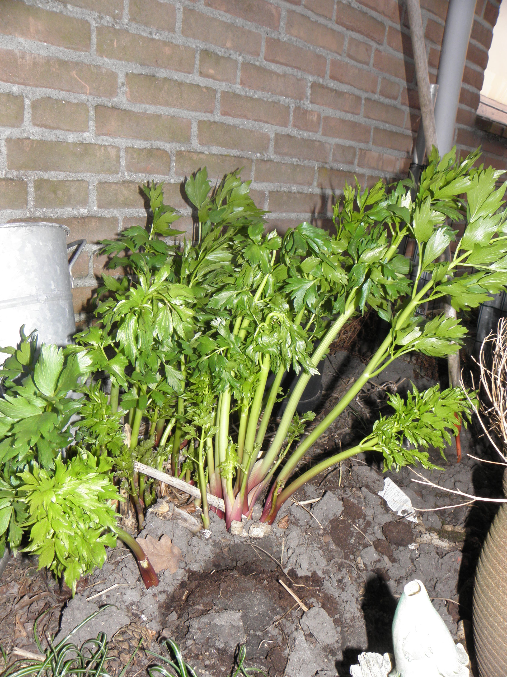 Lovage